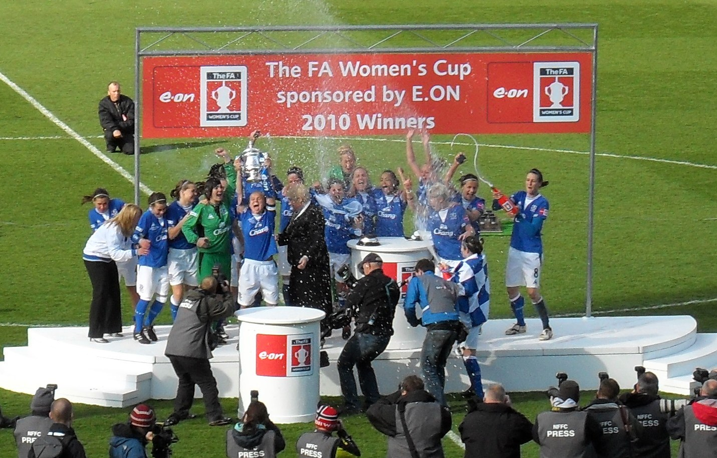 Everton Ladies with the FA Women's Cup, Nottingham, May 2010